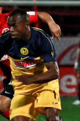 America player Christian Benitez